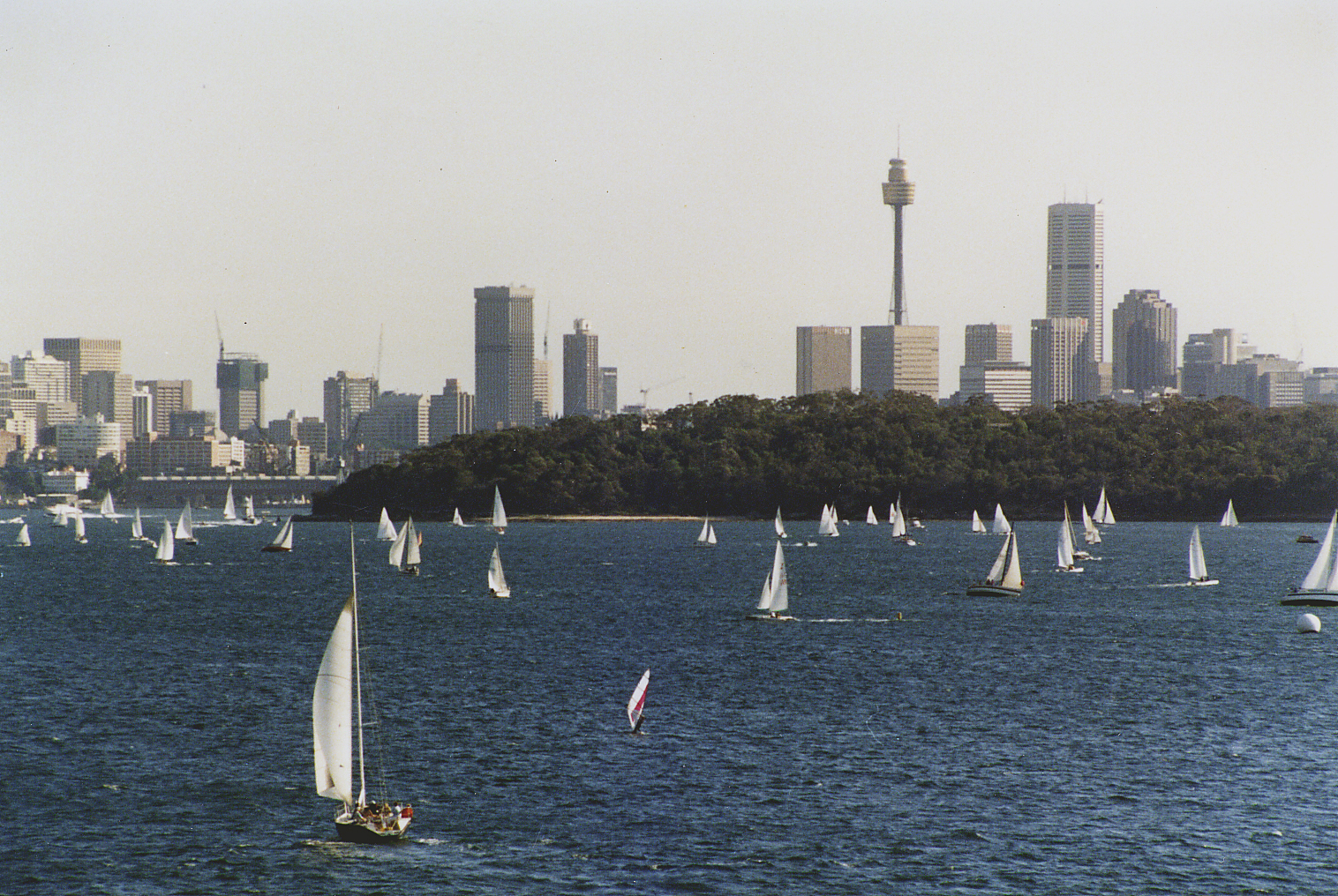 Sydney Harbour is a sunken valley.